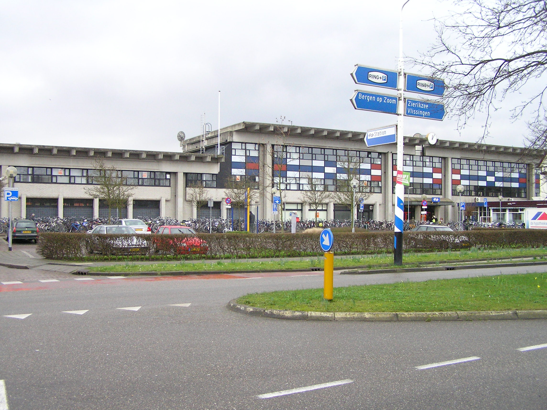 The trainstation in Goes